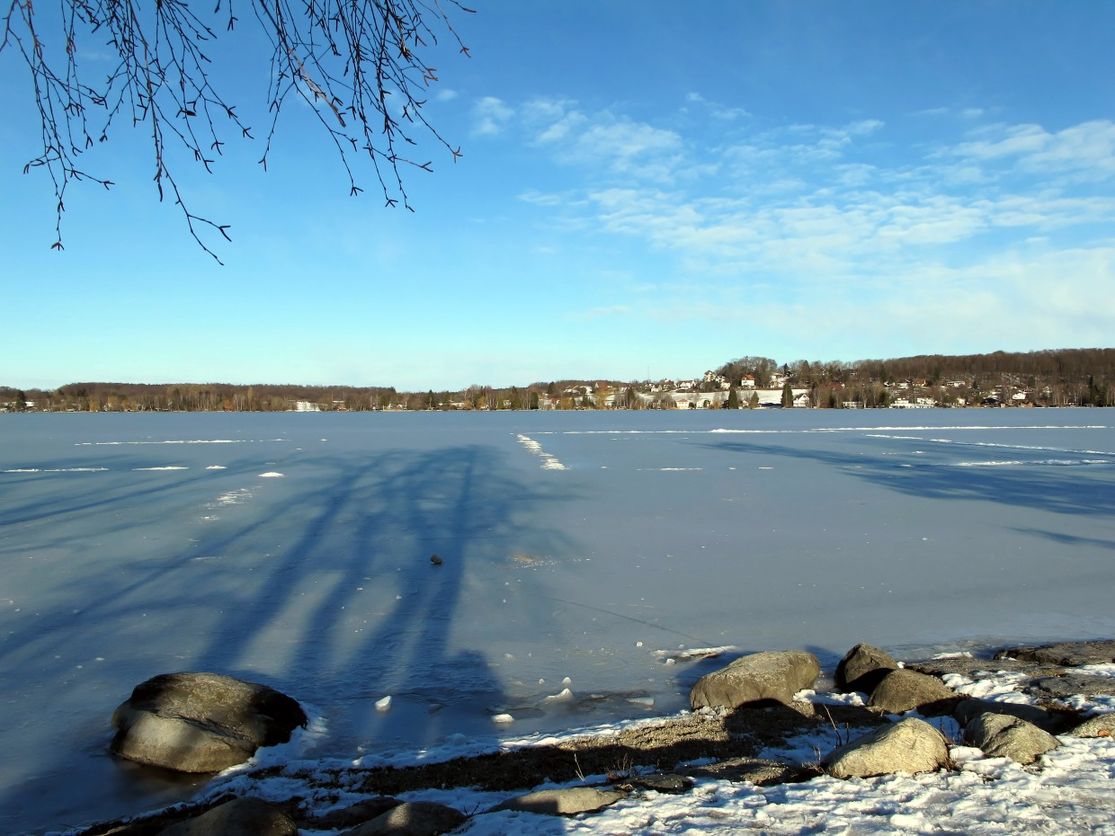 Lake Wörthsee, View from Village Steinebach in SE to NW (Village Walchstadt)